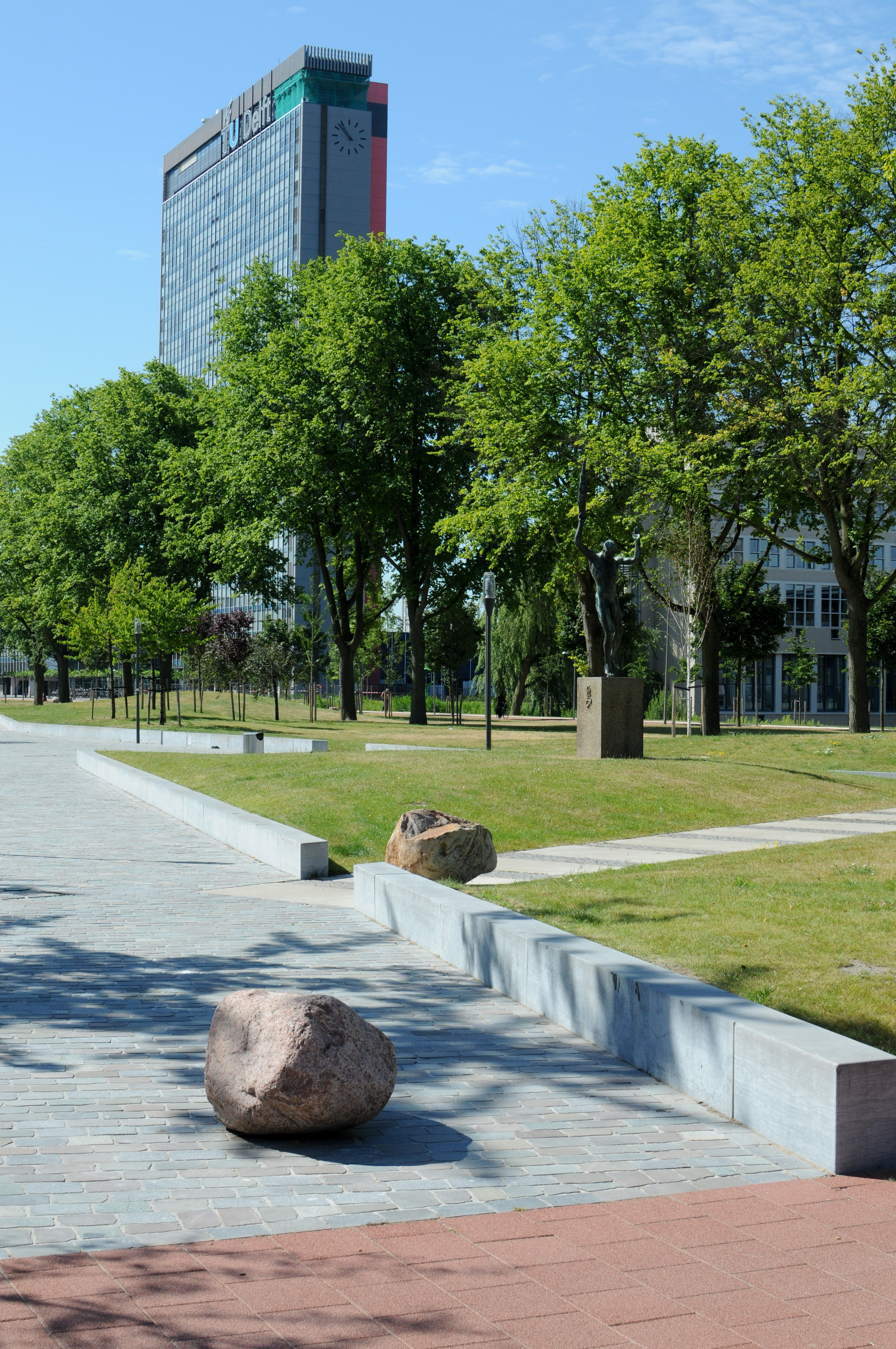 TU Delft EWI Building seen from the Mekelpark